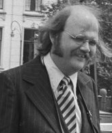 Putter Smith as Mr. Kidd (right) during filming of Diamonds Are Forever.